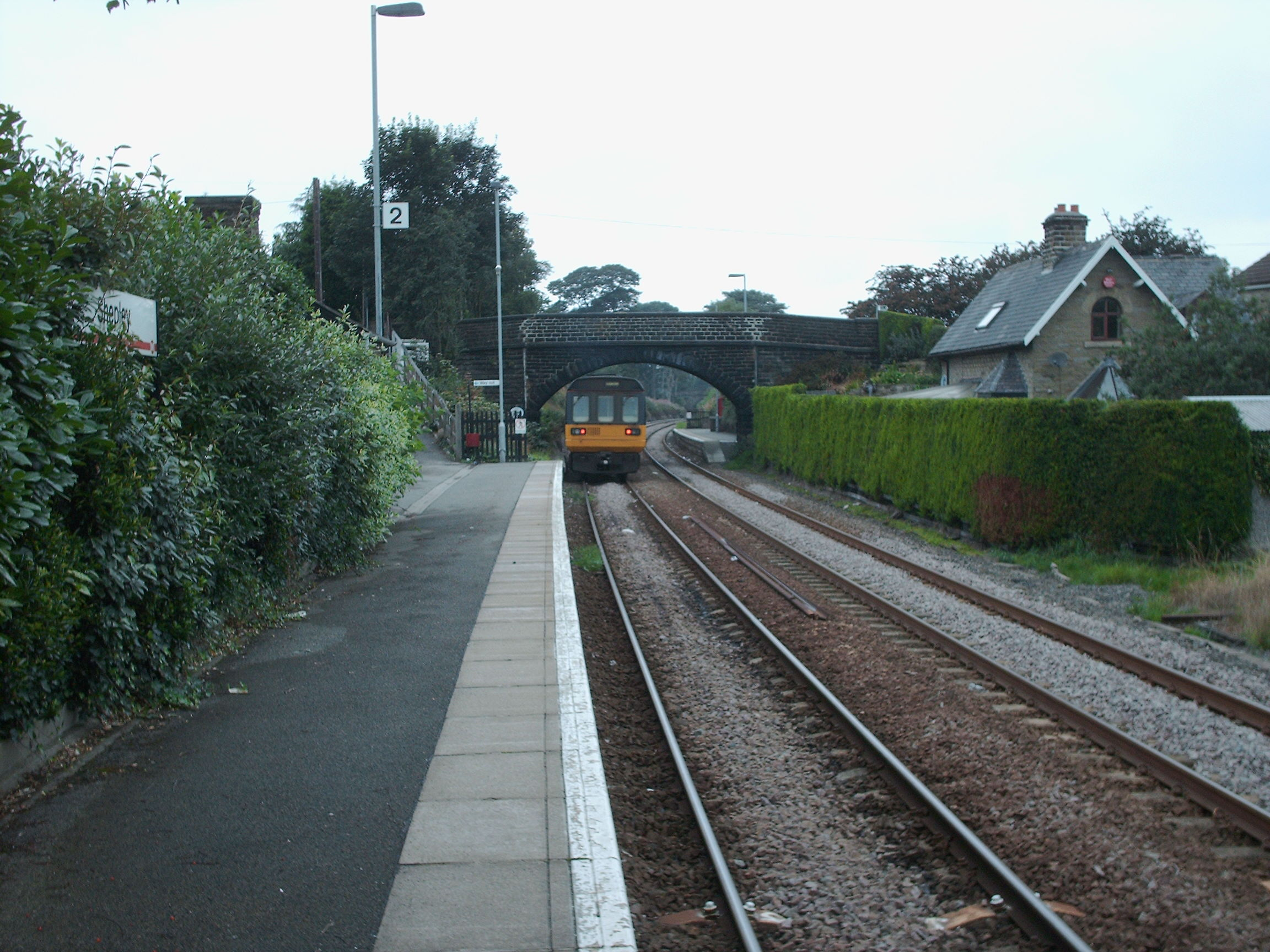 Shepley railway station, West Yorkshire, England. 142093 departing.